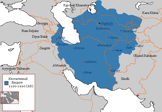 Khwarezmian Empire (1190-1220)